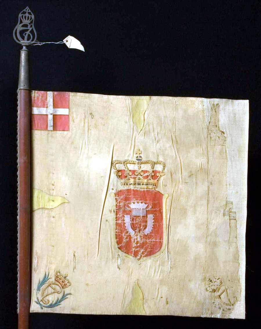 Banner of the (Danish) Holstein cavalry regiment, made between 1795-1808 during the reign of king Christian VII (monogram), captured on September 4, 1813 by Mecklenburg/Swedish forces near Dassow and taken to Sweden, collection of the Armémuseum Width standar 62 cm Height standar 60 cm Length standar 283 cm